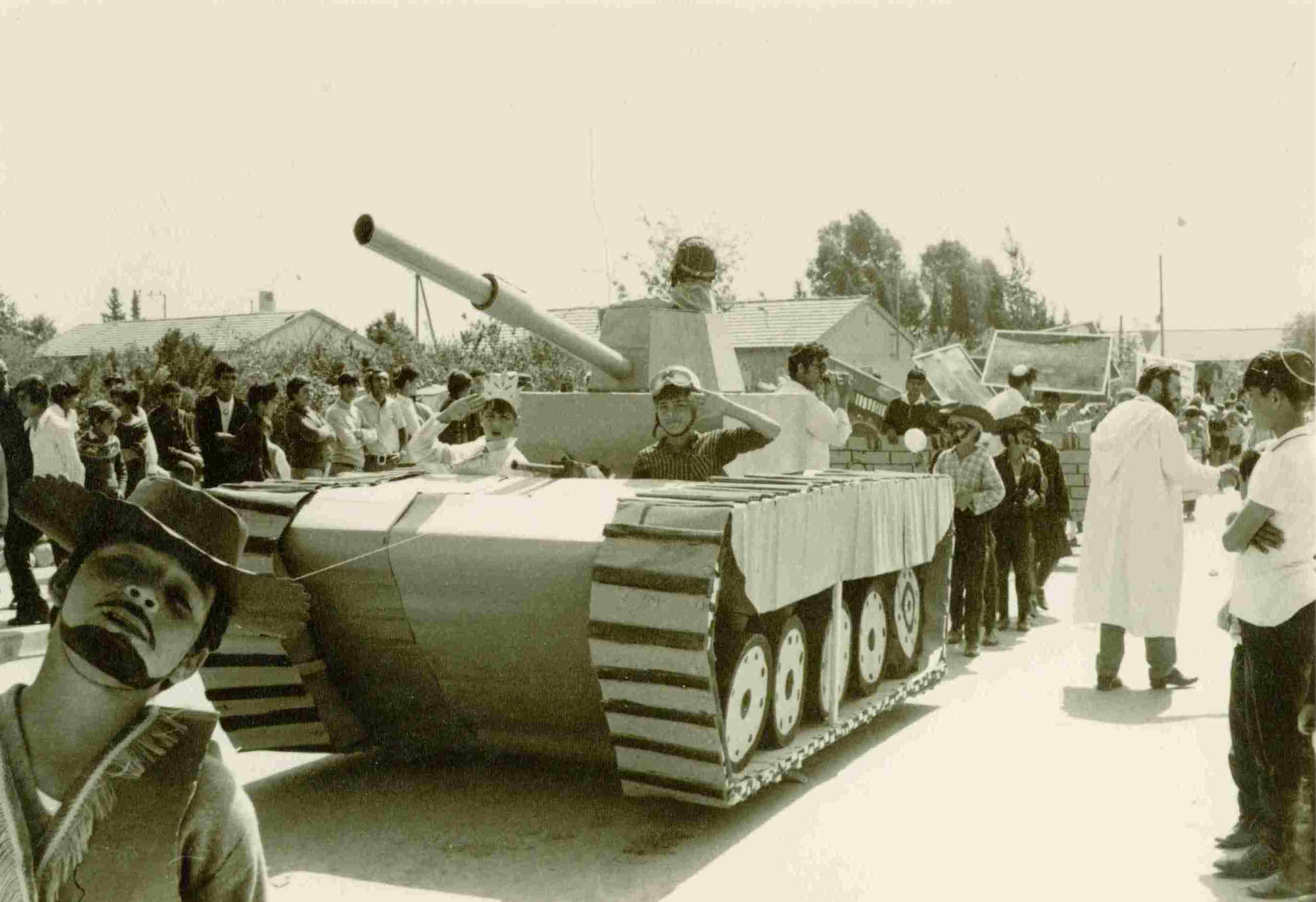 Architecture of Israel